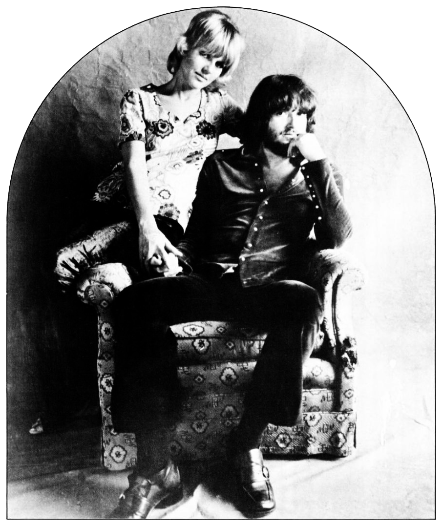 Trade ad of Delaney & Bonnie. To better adapt it to his respective Wikipedia article, the ad was cropped and cleaned in a graphics editing program. The original can be viewed at the source below.